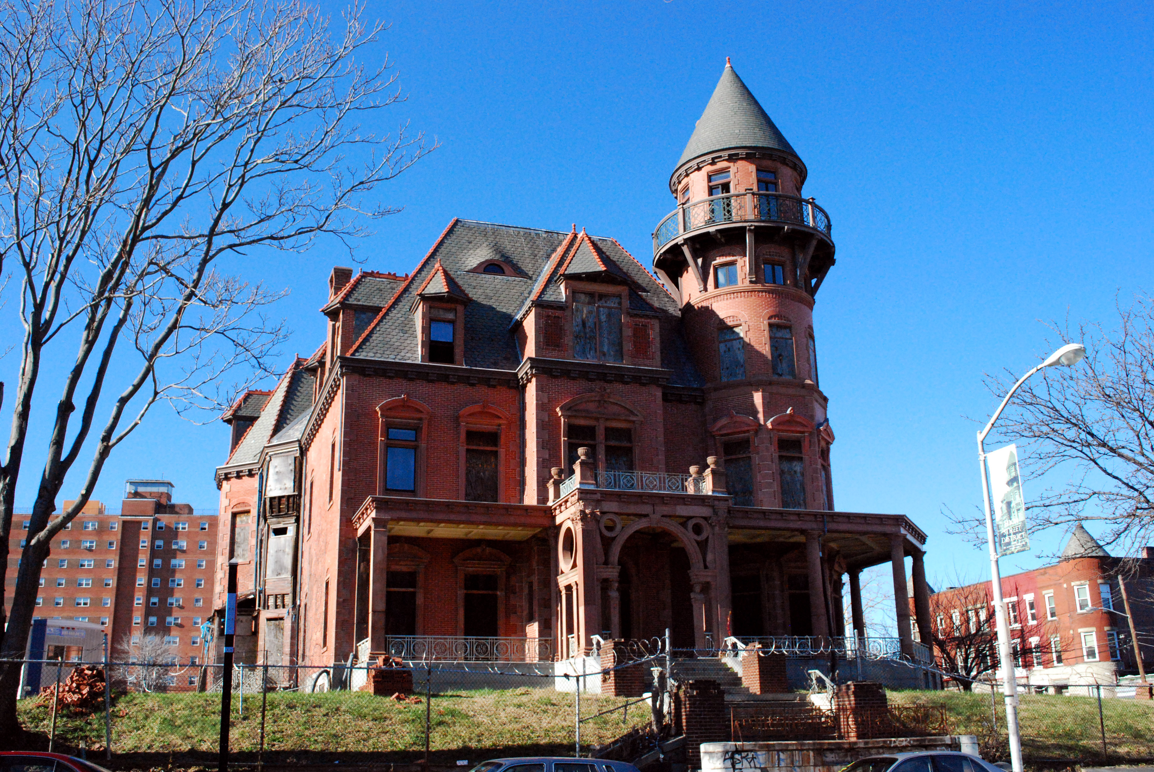 Krueger Scott Mansion, exterior, on Dr. Martin Luther King Jr. Blvd., Newark, Jersey